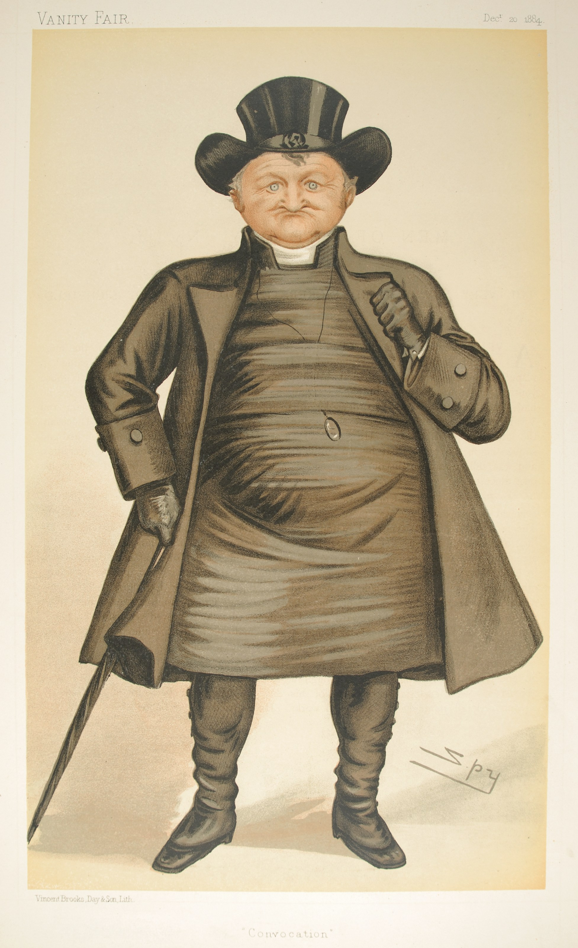 Men of the Day No.321: Caricature of The Dean of Lichfield. Caption reads: "Convocation"